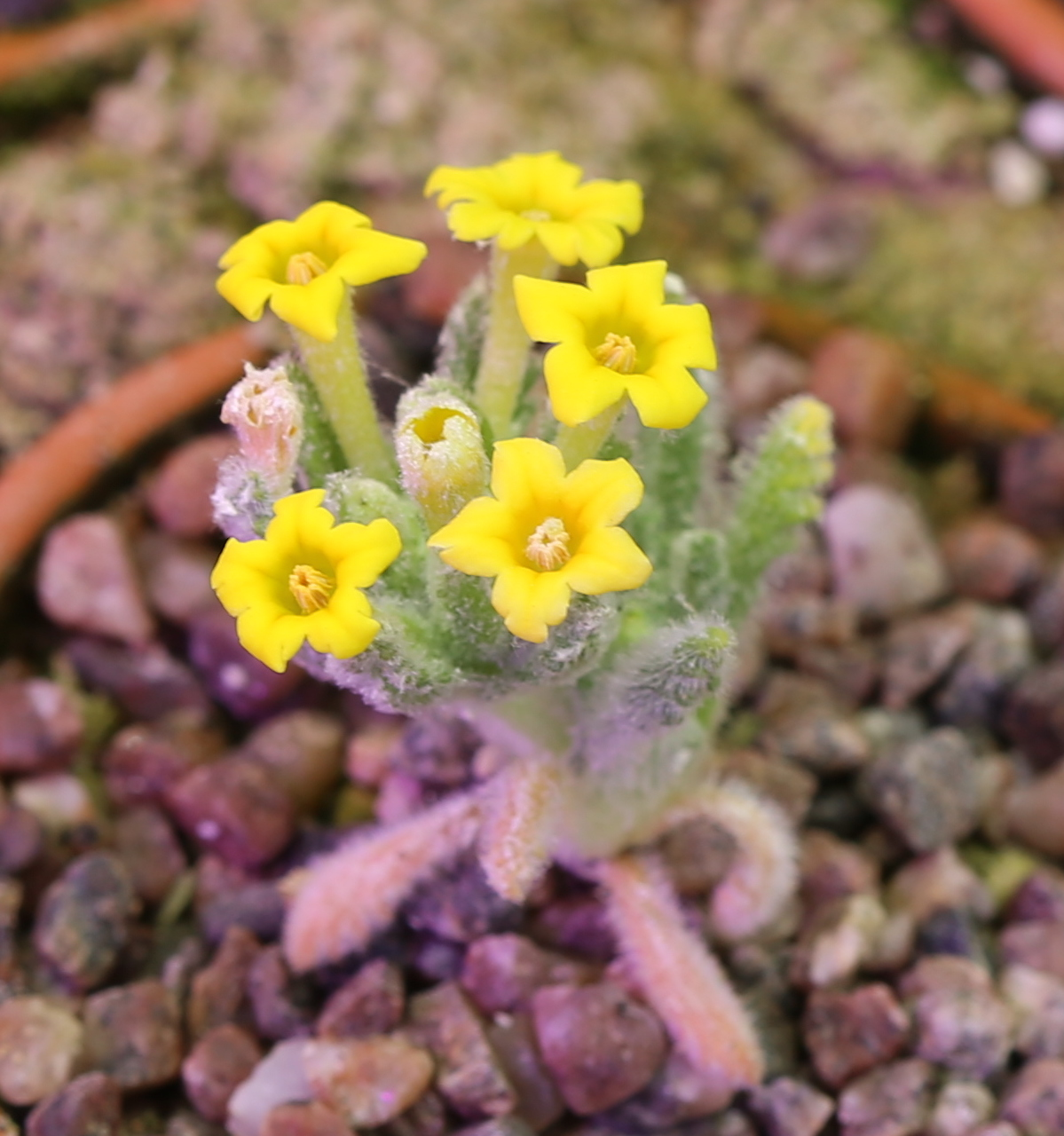 Dionysia teucrioides at Gothenburg Botanical Garden in 2015. Plant id: 1992-1397